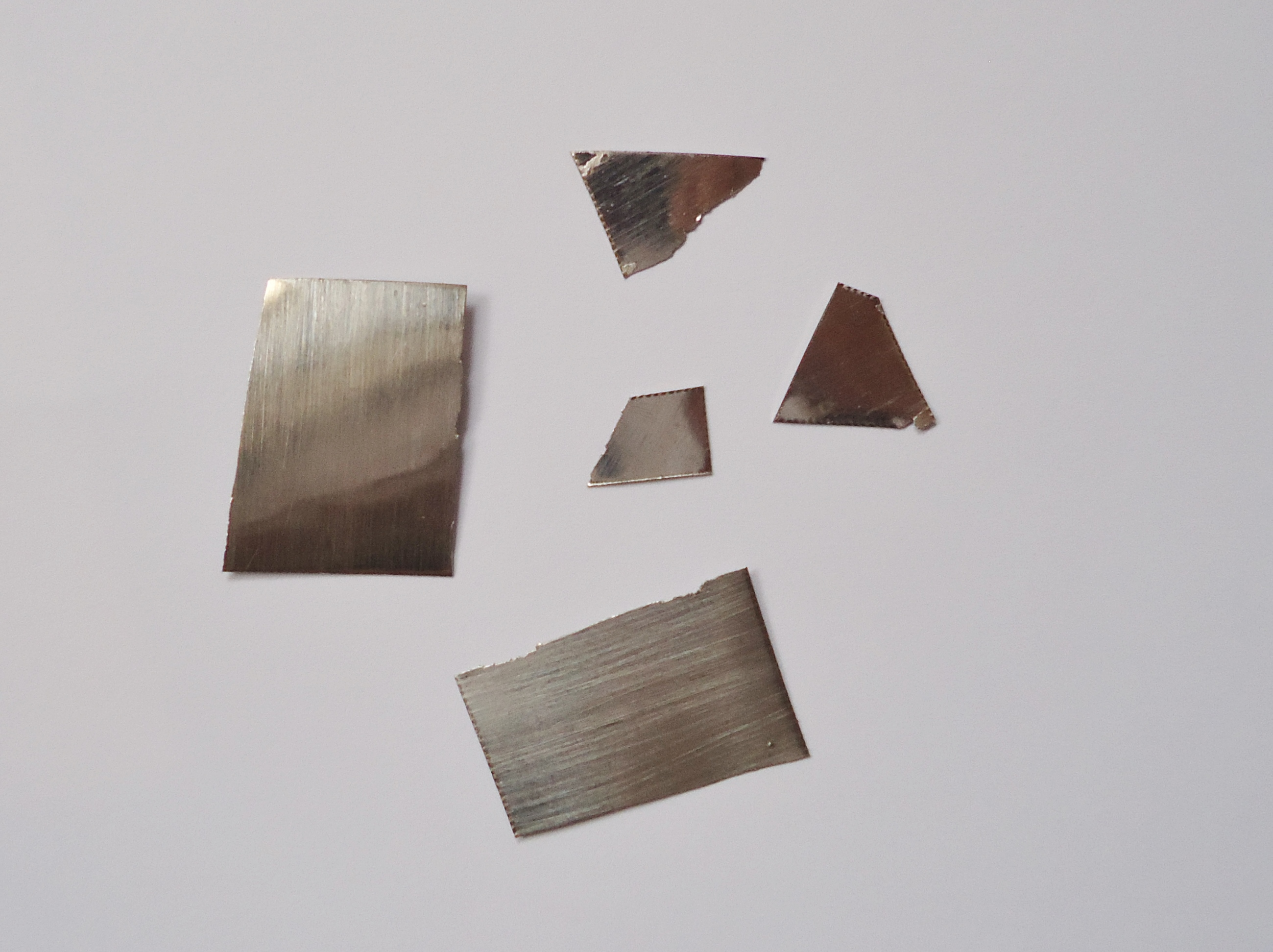 2.5 grams of palladium, used to make white gold.